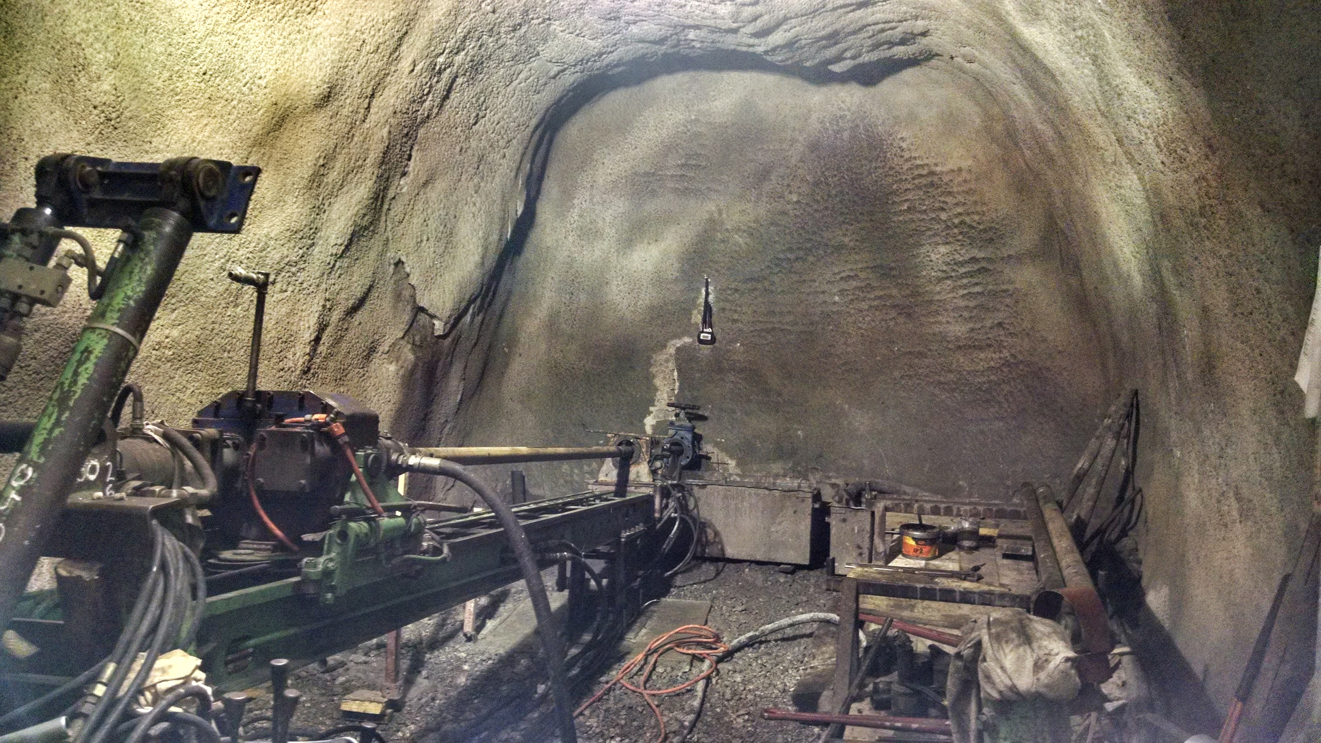 Test drillings for the new east tube, undertaken from the west tube